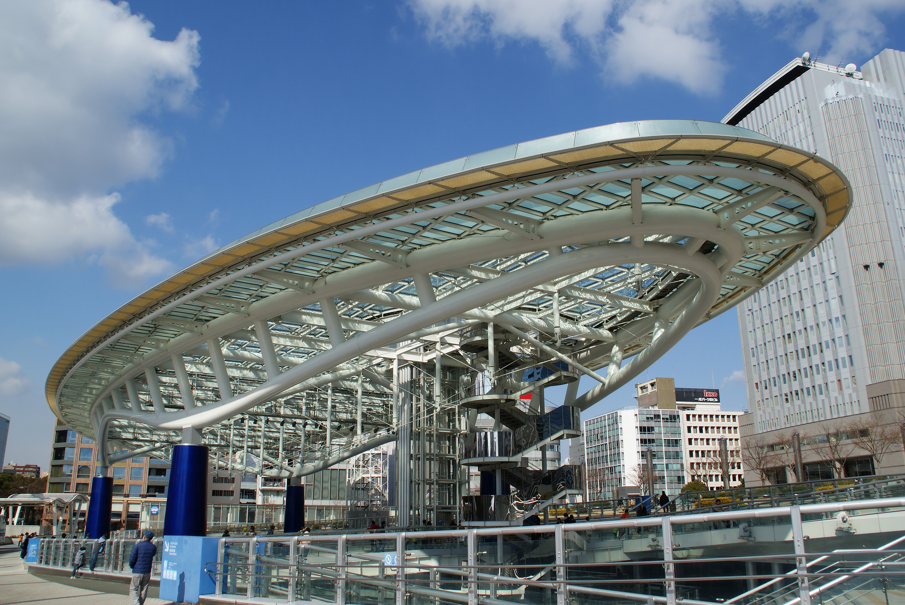 Oasis 21, Spaceship Aqua.(Higashi Ward, Nagoya City, Aichi Prefecture, Japan)